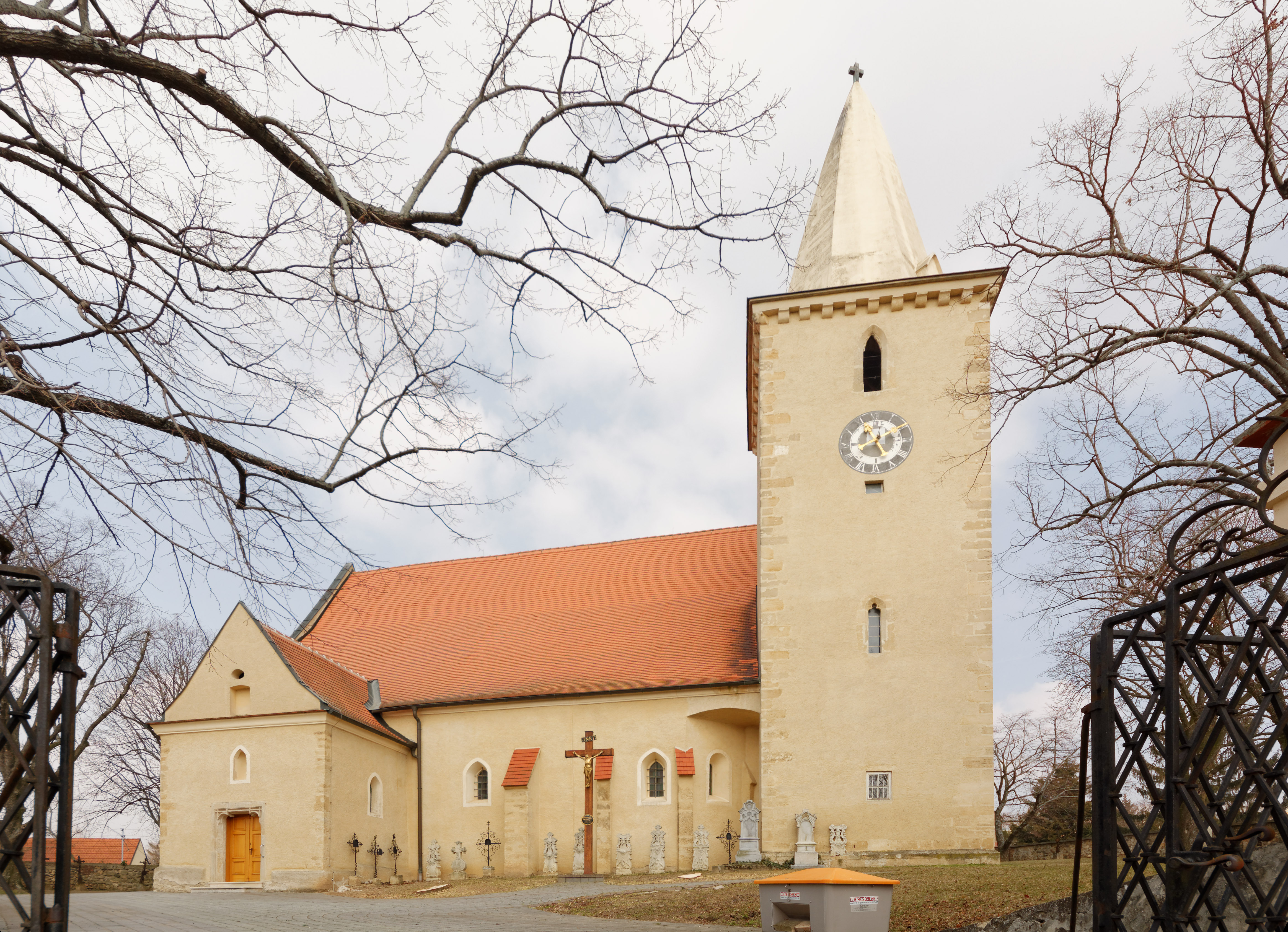 Catholic parish church in Altlichtenwarth, Lower Austria, Austria